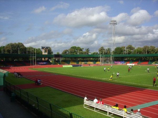 Sugatadasa Stadium